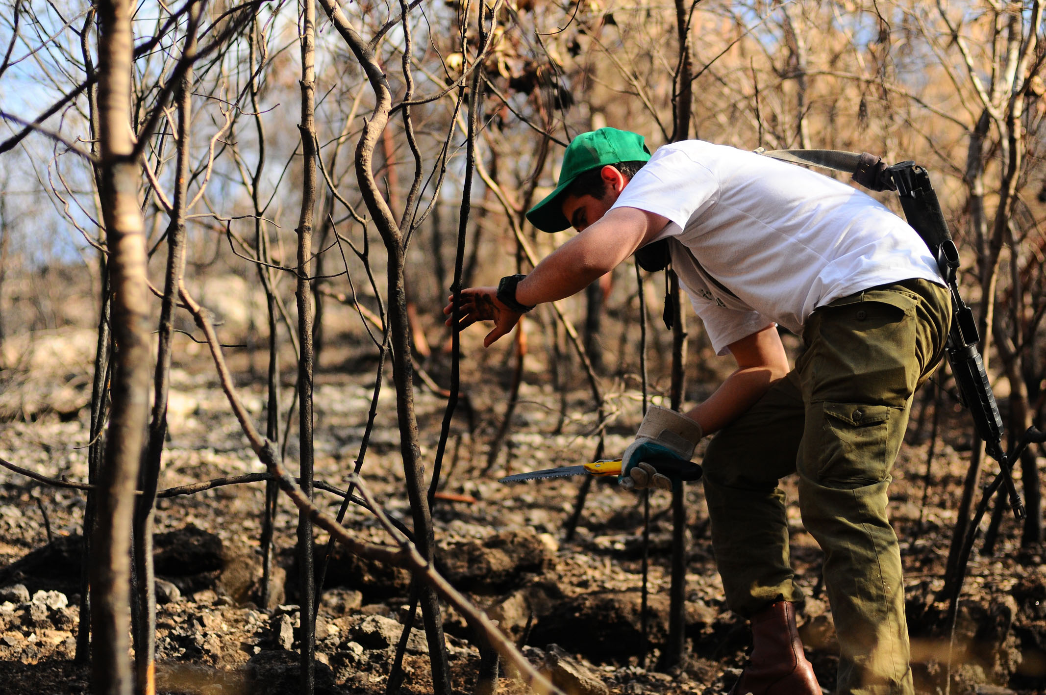 As many as a thousand soldiers from the IDF's Nachal infantry Brigade helped clear and rebuild various walking paths, paint signs and more in the areas damaged by the Carmel fires. On the 2nd of December 2010 a blazing fire began spreading wildly through the Carmel Forest near Haifa in northern Israel, annihilating over 750 acres and resulted in the death of 44 people including firemen who fought the fire. Firefighting delegations from around the world rallied to help Israel stop the spread of fire including planes and helicopters from Greece, Bulgaria, Cypress, Britain, Turkey, Russia, France, Italy, the US and Switzerland. The IDF, too, sent forces to assist in the fight including forces from the IAF, thousands of soldiers, hundreds of vehicles, dozens of engineering machines and military firefighting vehicles. All fought for days until the fire was finally put out on the 5th of December. For more information go to the IDF Blog at or to our YouTube Channel at